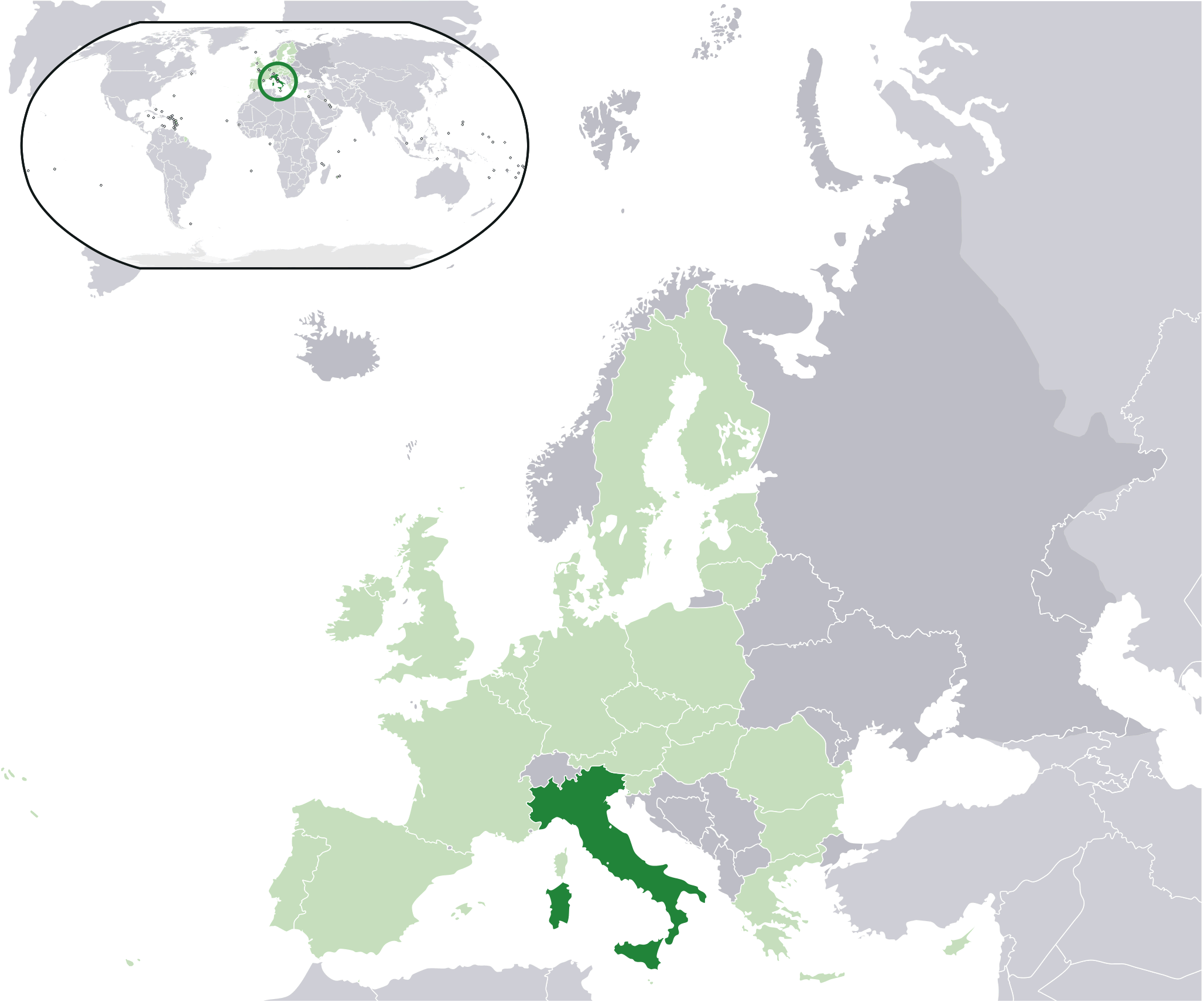 Location map: Italy (dark green) / European Union (light green) / Europe (dark grey); inspired by and consistent with general country locator maps by User:Vardion, et al.